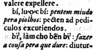 Cropped image of column 34 of de Rhodes’ Dictionarium Annamiticum (1651). Showing the soft dot of the i in bí and the hard dot of i in bỉ.